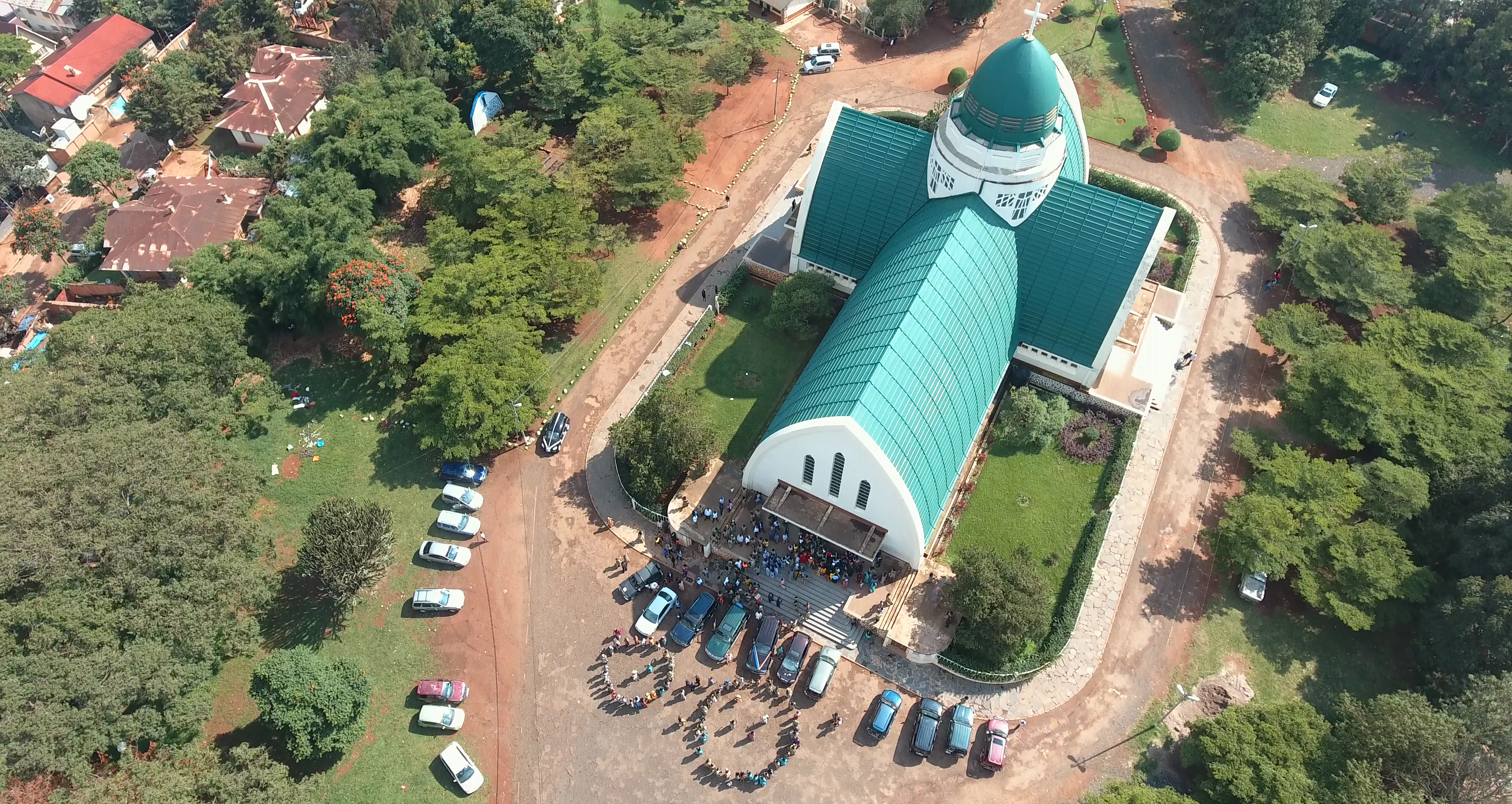 This is an image of "African people at work" from Democratic Republic of the Congo